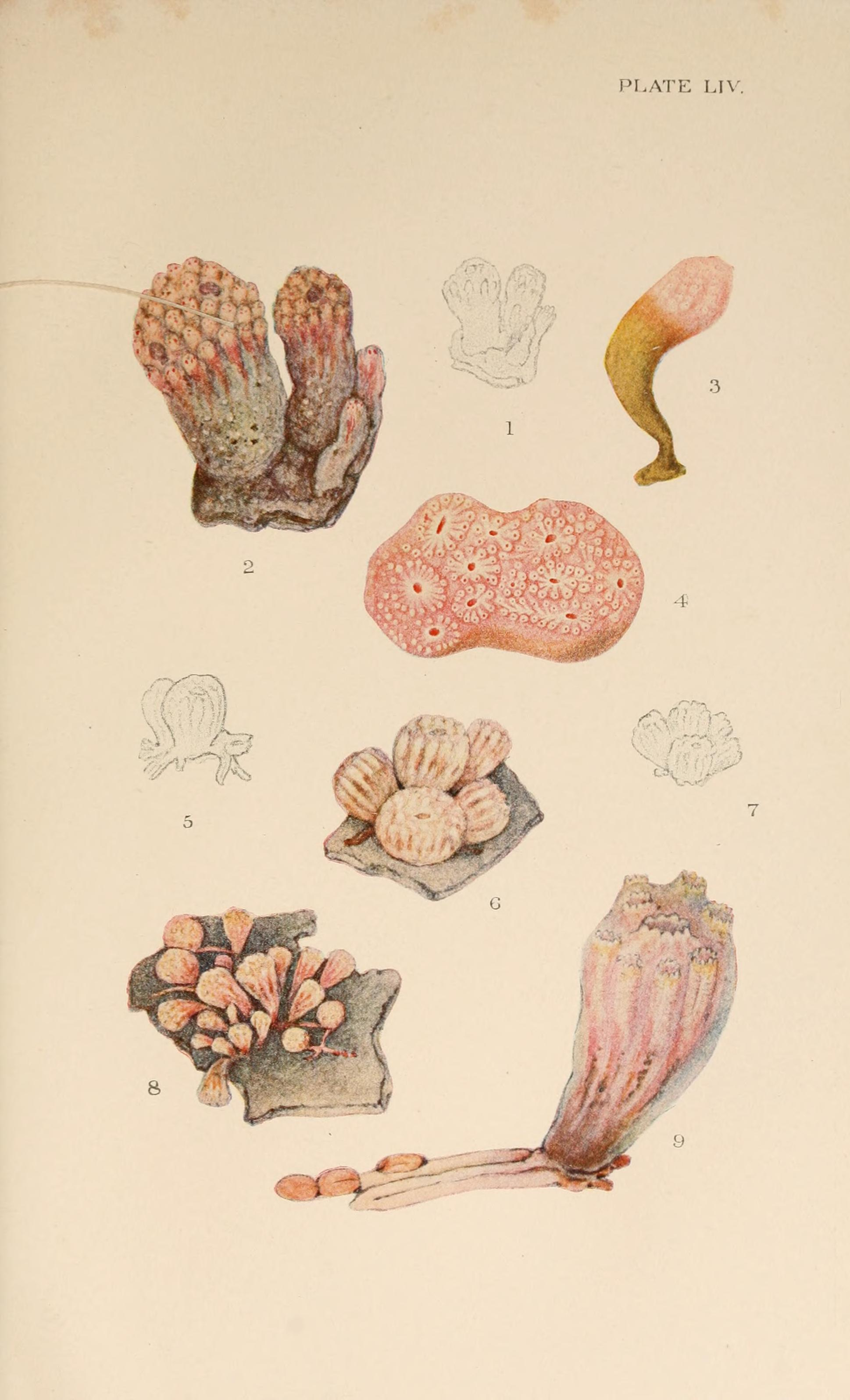 Alder, Joshua, Embleton, Dennis, Hancock, Albany, Hopkinson, John,Norman, Alfred Merle ,1905-12 The British Tunicata; an unfinished monograph, by the late Joshua Alder and the late Albany Hancock. Edited by John Hopkinson, with a history of the work by the Rev. A. M. Norman.London,Printed for the Ray society. Volume 3 Plate 54 PLATE L1V. FIGS. 1-3. Amaroucium argus M. Edw. (p. 11) 1. Clusters of colonies from Polperro, Cornwall : natural size. 2. The same : x 2. 3. A system : enlarged (M. Edwards, pl. i, f. 4). accepted as Morchellium argus (Milne-Edwards, 1841) 4. Amaroucium Nordmanni M. Edw. (p. 14) A colony : natural size (M. Edwards, pl. i, f. 5). accepted name Aplidium nordmanni (Milne-Edwards, 1841) 5-7. Parascidia Forbesii Alder, (p. 19) Colonies : natural size (7) and slightly enlarged. synonym for Sidnyum turbinatum Savigny, 1816 accepted name Aplidium turbinatum (Savigny, 1816) 8 and 9. Parascidia Flemingii Alder, (p. 20) 8. A cluster of colonies : natural size. 9. A colony composed of a single system : x 5. synonym for Sidnyum turbinatum Savigny, 1816 accepted name Aplidium turbinatum (Savigny, 1816)